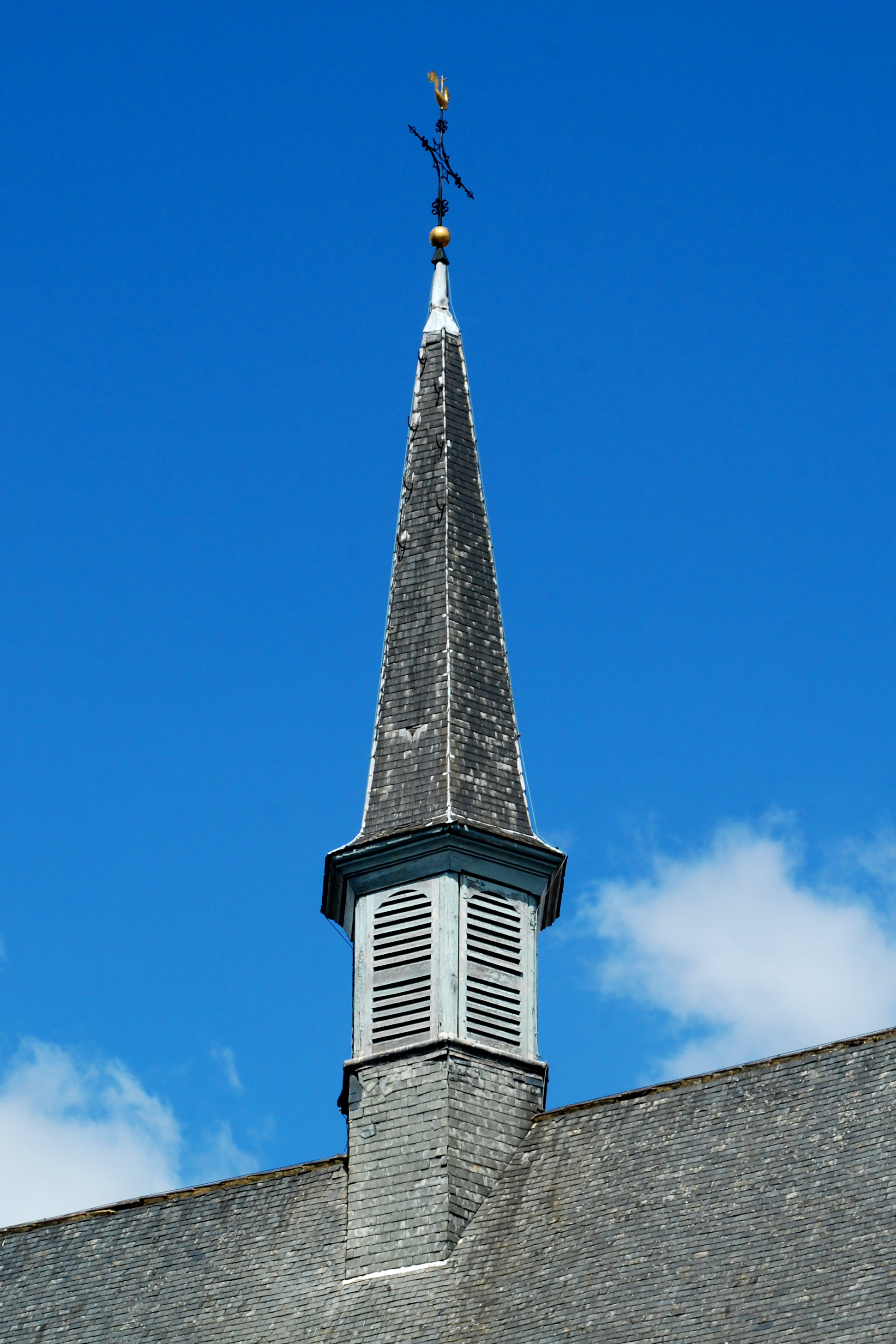 Belgium - Leuven - Chapel of the Romanesque Portal